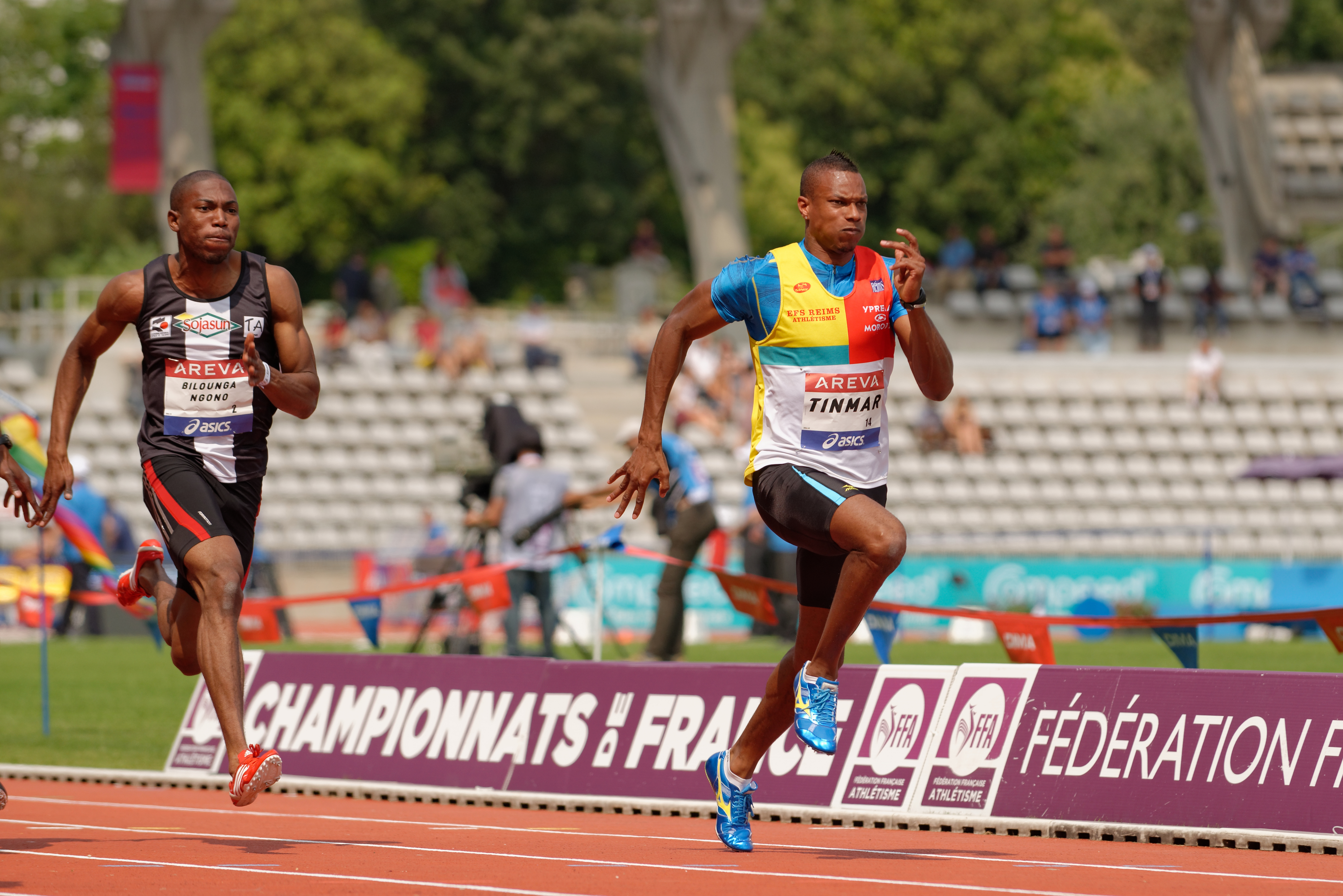 Teddy Tinmar (R) and Flavien Bilounga NGono (L) run the series of the men's 100-metre race during the French Athletics Championships 2013 at Stade Charléty in Paris, 13 July 2013.